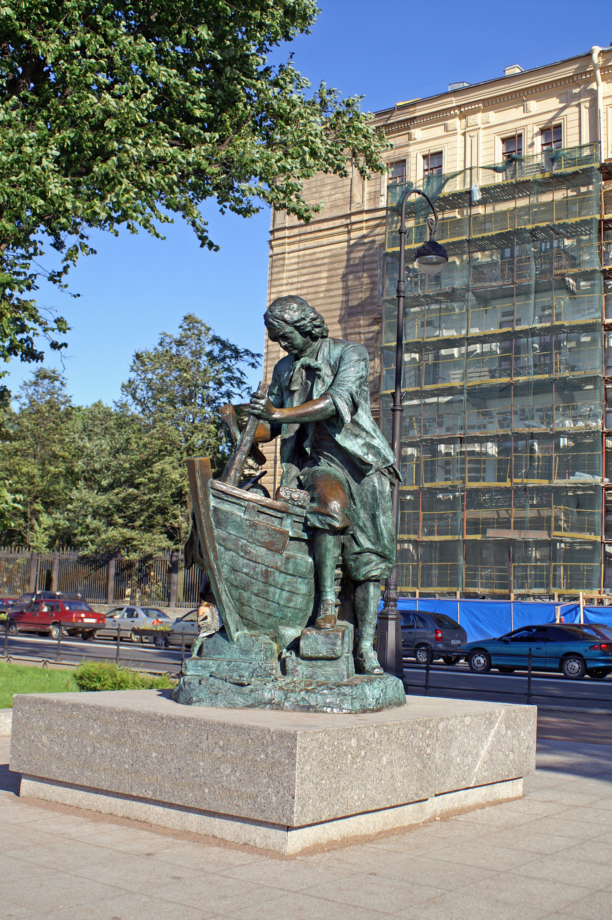 Sankt Petersburg, Restored monument, Tsar the Carpenter, Peter the I learns shipbuilding craft in the city of Saardam, in Holland in 1697. Originally it was placed in the same place, at the Admiralty embankment, in 1911 (project of L. A. Bernshtam). The copy of this monument was given to Dutch city of Zaandam, and one more copy was situated formerly in the Summer garden. In 1918 monument was removed, and in 1990s restored.